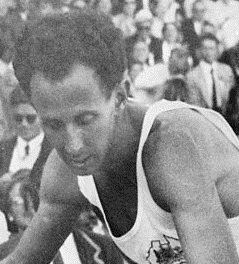 1956 Ron Delany Wins Olympic 1500 Meter Race Press Photo